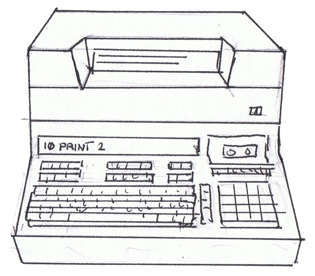 Sketch of HP 9830 desktop computer